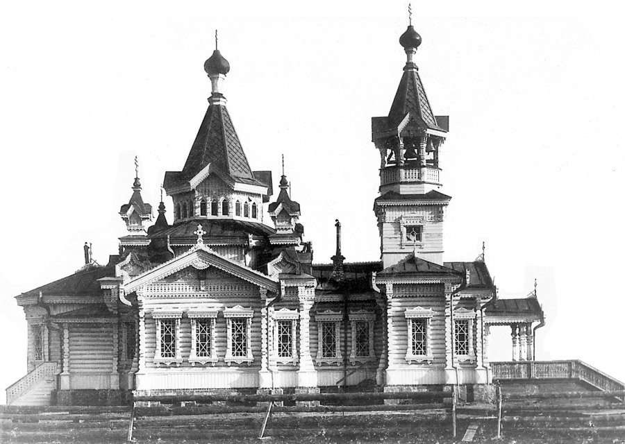 Factory wooden Church of All Saints in Serov, Sverdlovsk oblast, Russia. It was built in 1898 by the architect Vladimir Pyasetsky and burned in 1908